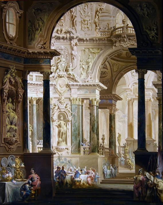 The feast of Absalon